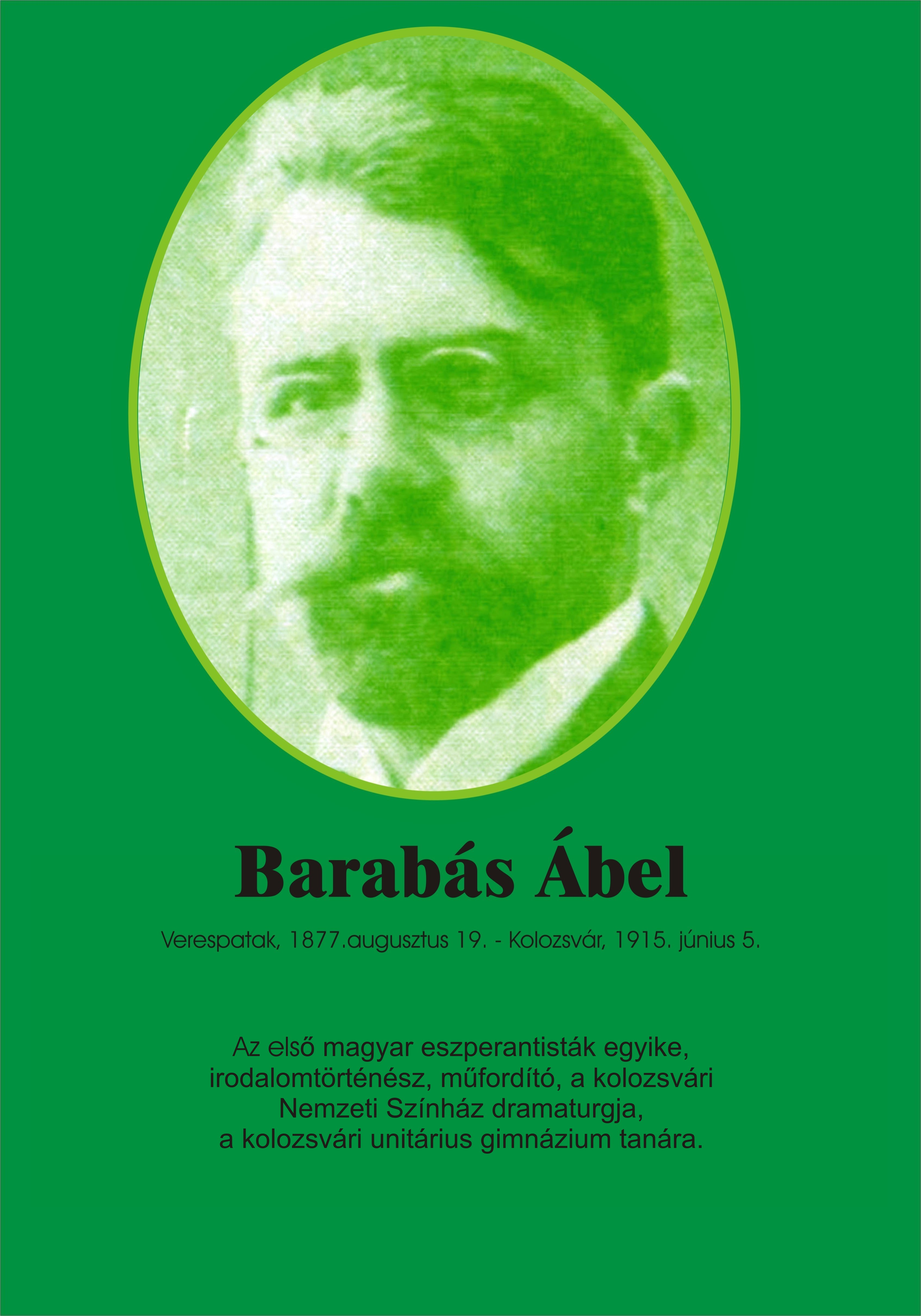 Ábel Barabás (1877-1915) Esperanto, the literary